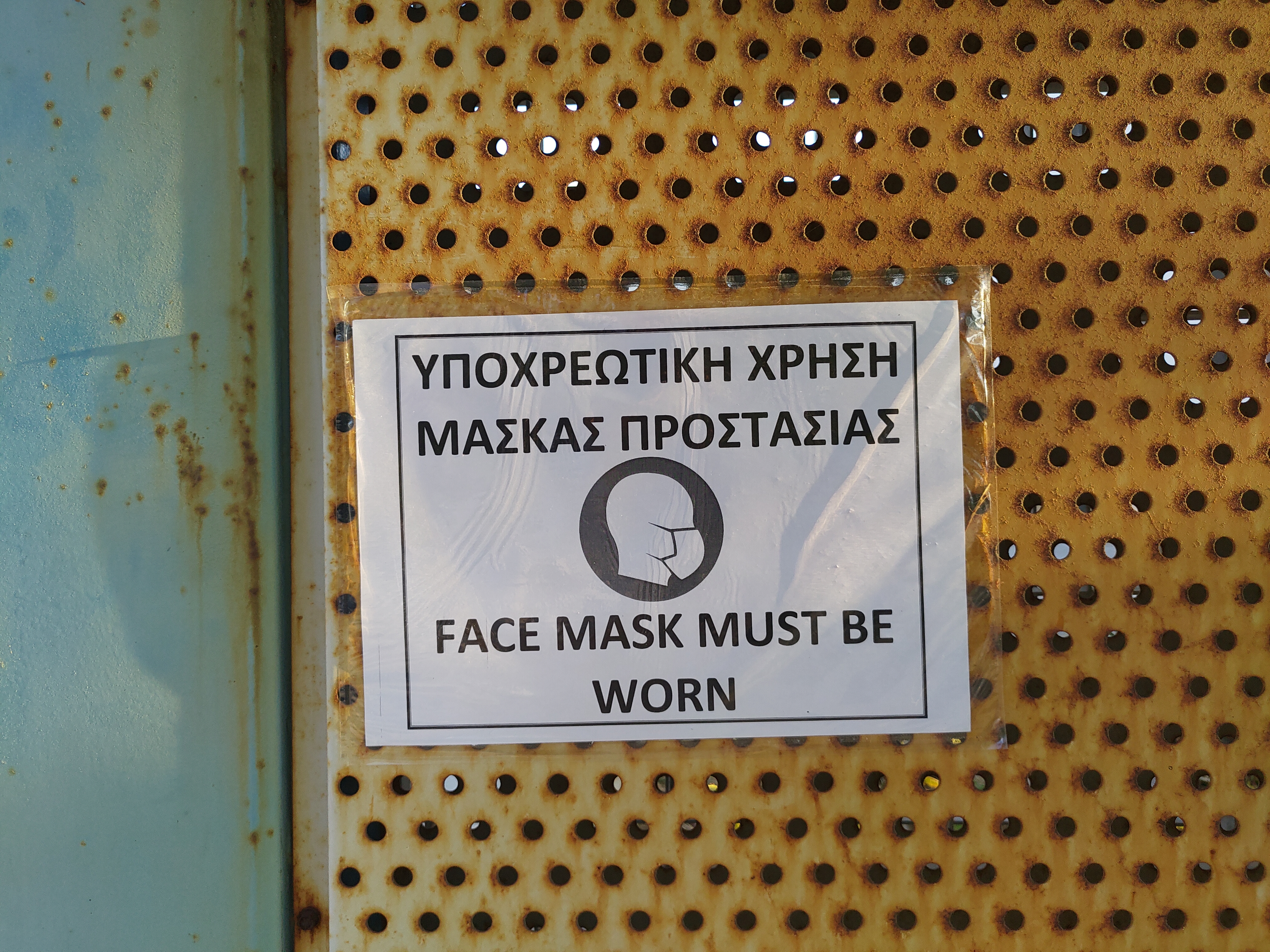 "Προσοχή κρατάτε απόσταση ασφάλειας 1.5 μέτρο" / "Keep a safe distance 1.5 meters" -sign in Rethymno during COVID-19 pandemic.